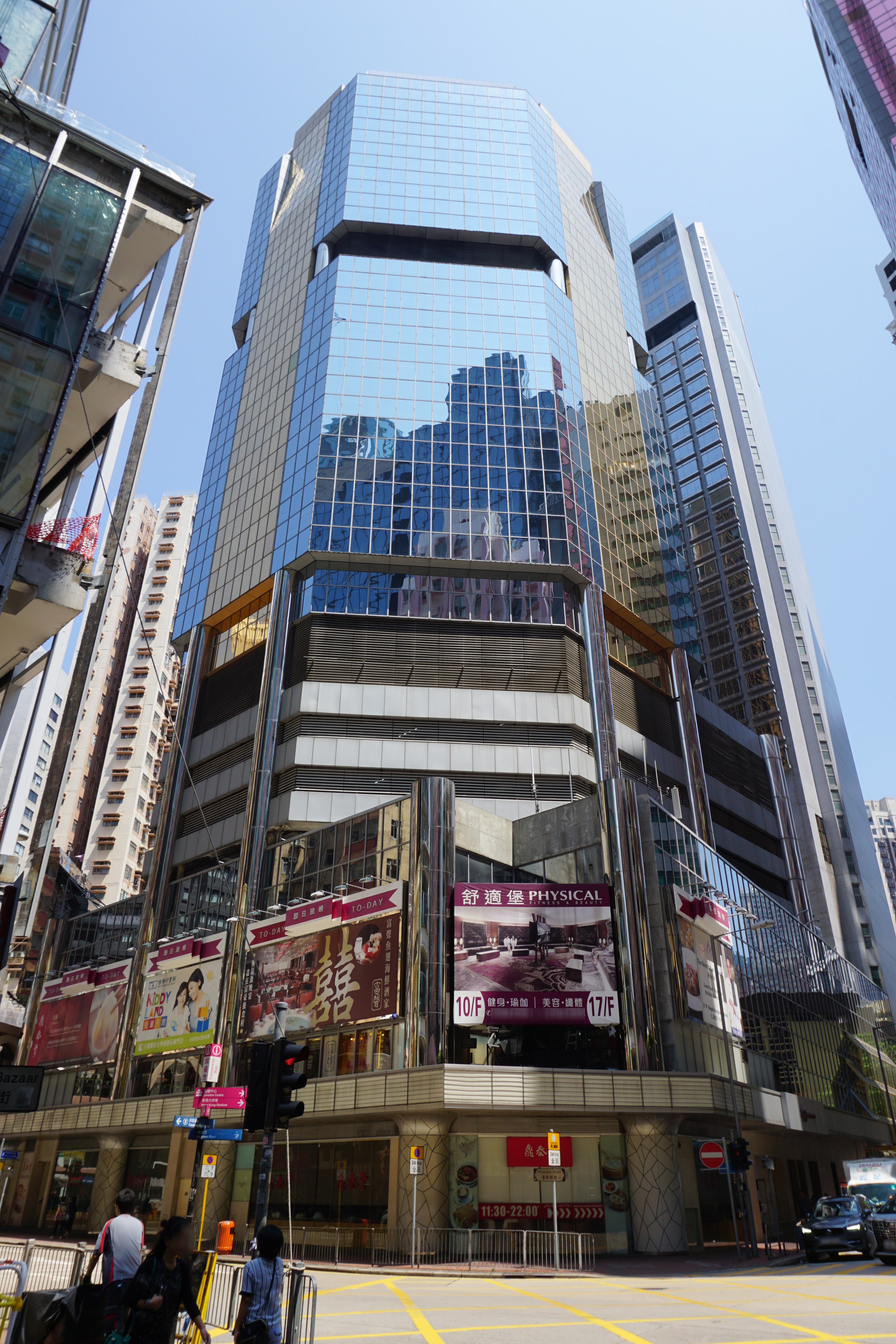 68 Yee Wo Street in Causeway Bay, Hong Kong.